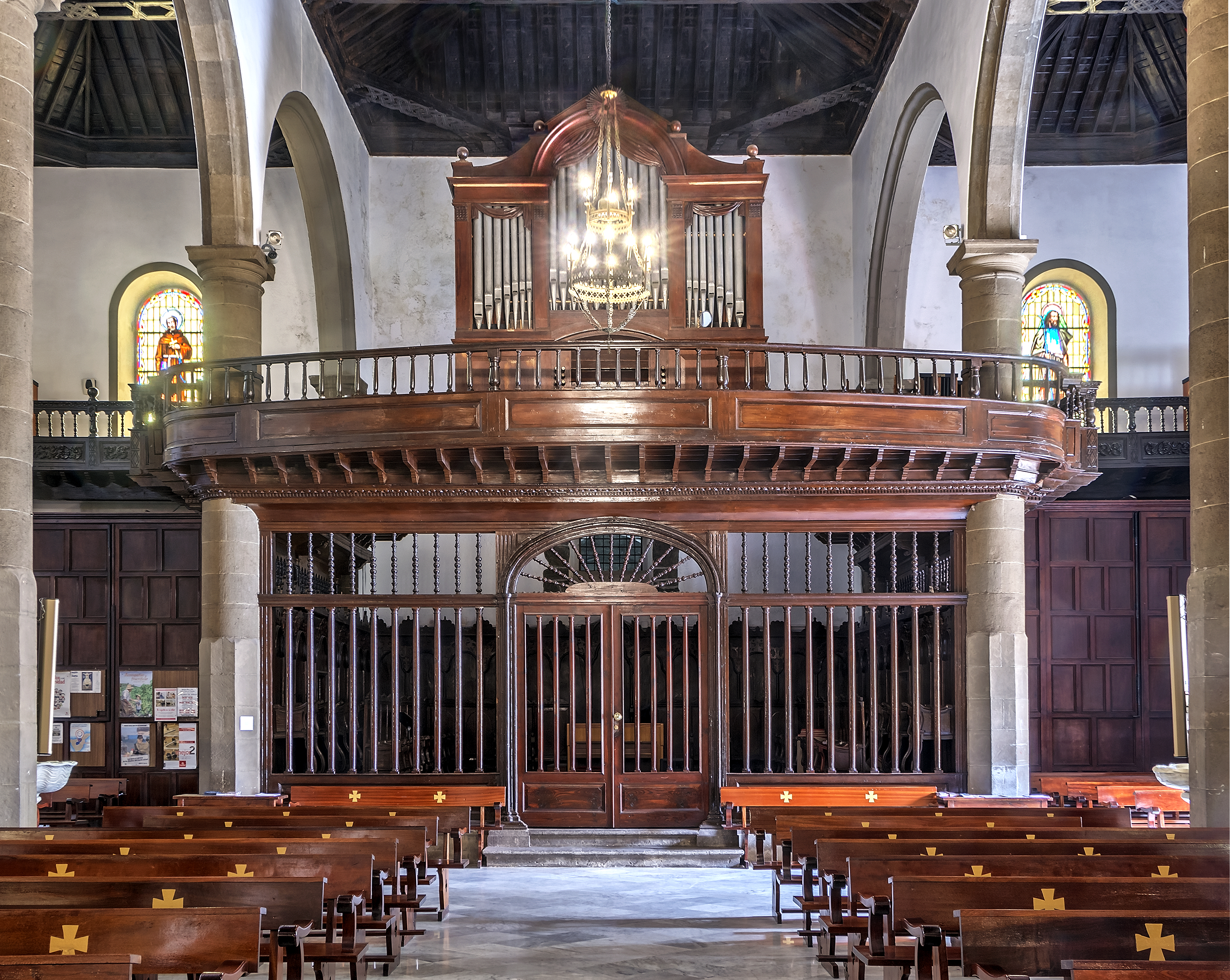 Organ loft, Iglesia de Nuestra Señora de la Peña de Francia, Puerto de la Cruz, Tenerife, Canary Islands, Spain.